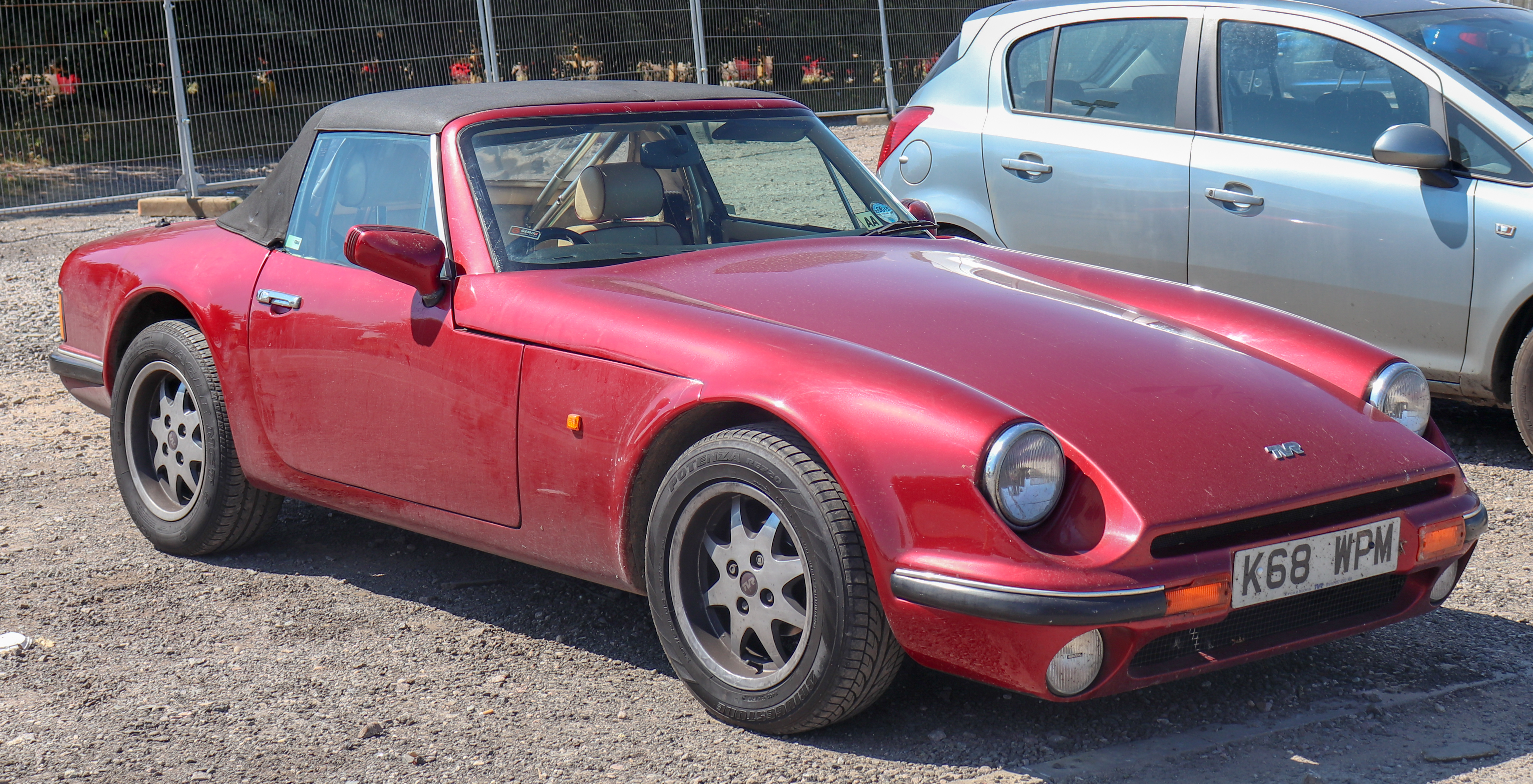 1993 TVR 290S Front Taken at the British Motor Museum Old Ford Rally 2018, Gaydon